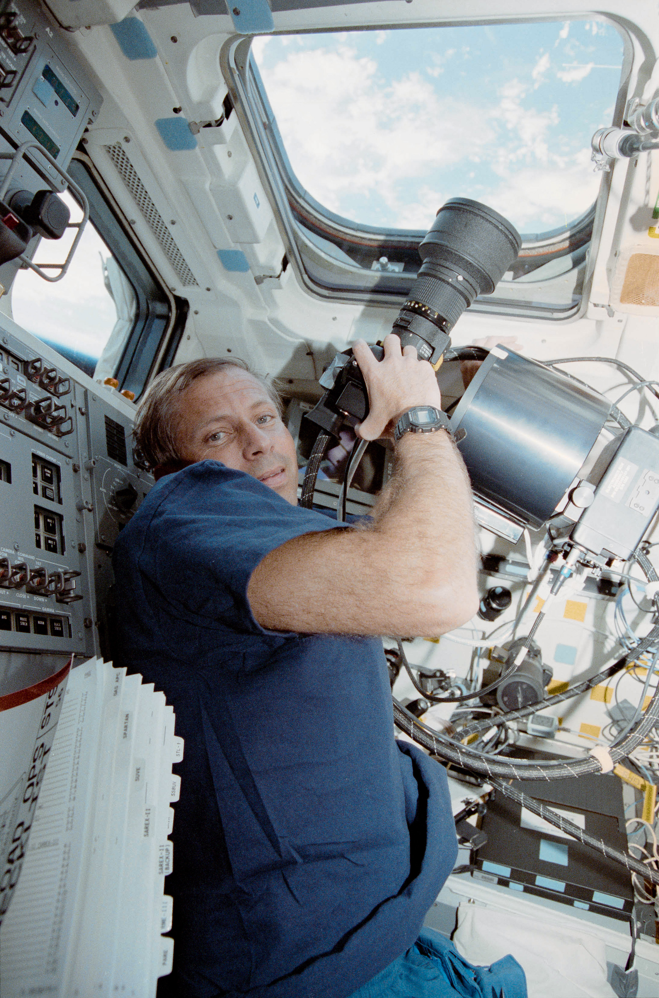 STS-56 MS2 Cockrell with HERCULES camera at overhead window W8 on OV-103's FD - STS-56 Mission Specialist 2 (MS2) Kenneth D. Cockrell records Earth imagery with the Hand-held, Earth-oriented, Real-time, Cooperative, User-friendly, Location-targeting and Environmental System (HERCULES) 35mm camera. Cockrell is positioned under aft flight deck overhead window W8 with his back to the onorbit station controls and aft flight deck viewing window W10. HERCULES is a device that makes it simple for Shuttle crewmembers to take pictures of Earth, as they merely point a modified 35mm camera and shoot any interesting feature, whose latitude and longitude are automatically determined in real-time. The powder-box shaped attachment is the HERCULES inertial measurement unit (HIMU) with the Electronic Still Camera Electronic Box (ESCEB) underneath it. The STS-56 crew downlinked a number of the still images during the flight, while others are likely to be stored on disc and returned to Earth with the crew.